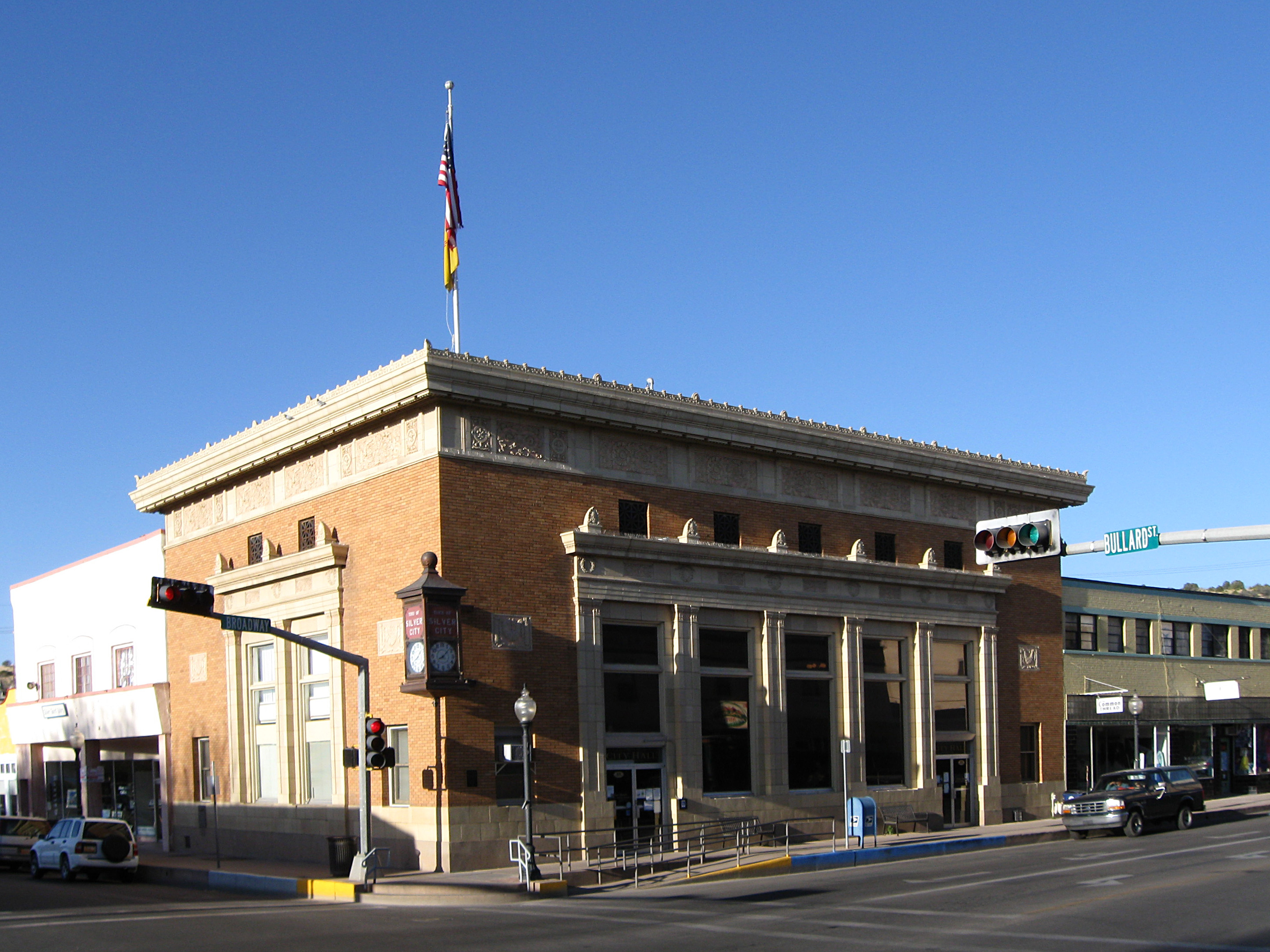 Silver City (New Mexico) City Hall, located at 101 West Broadway.